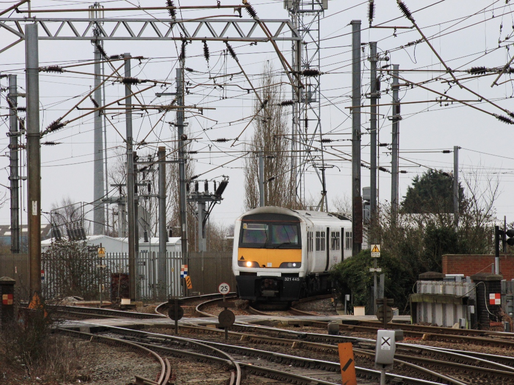 Greater Anglia's 321445 crosses Manningtree South Junction as it nears the end of its journey from Harwich.